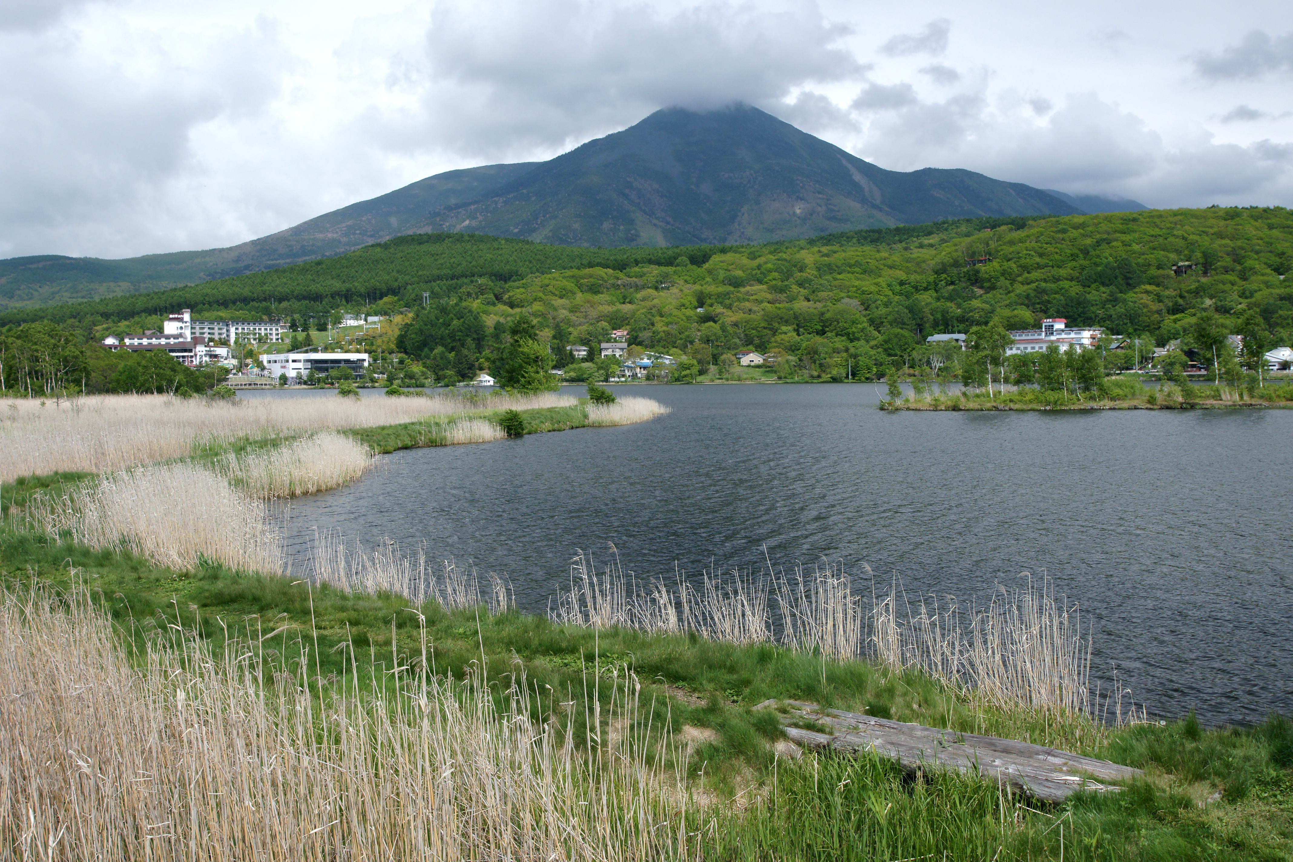 Lake Shirakaba, Chino and Tateshina, Nagano prefecture, Japan